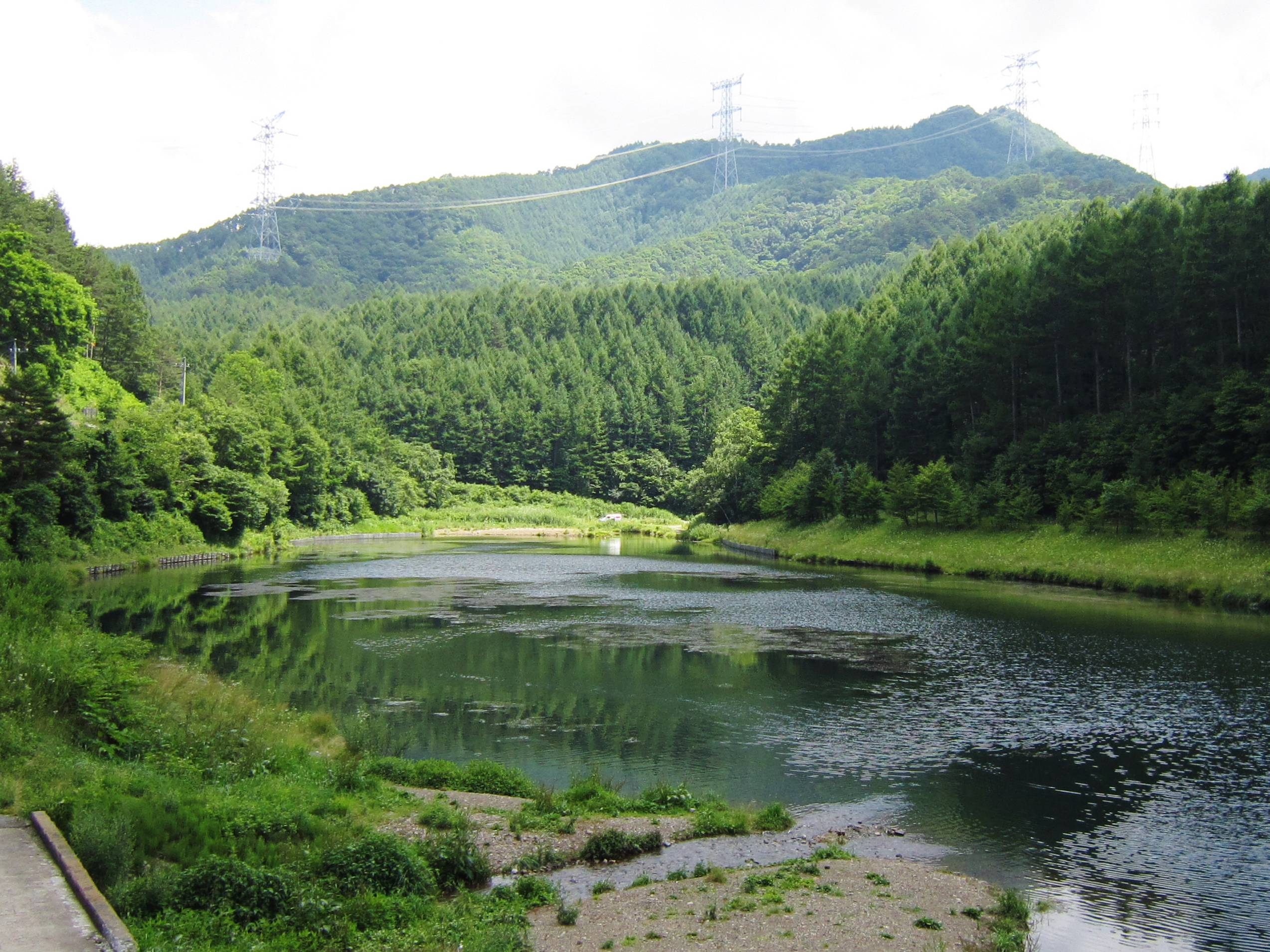 Lake Kawashi.